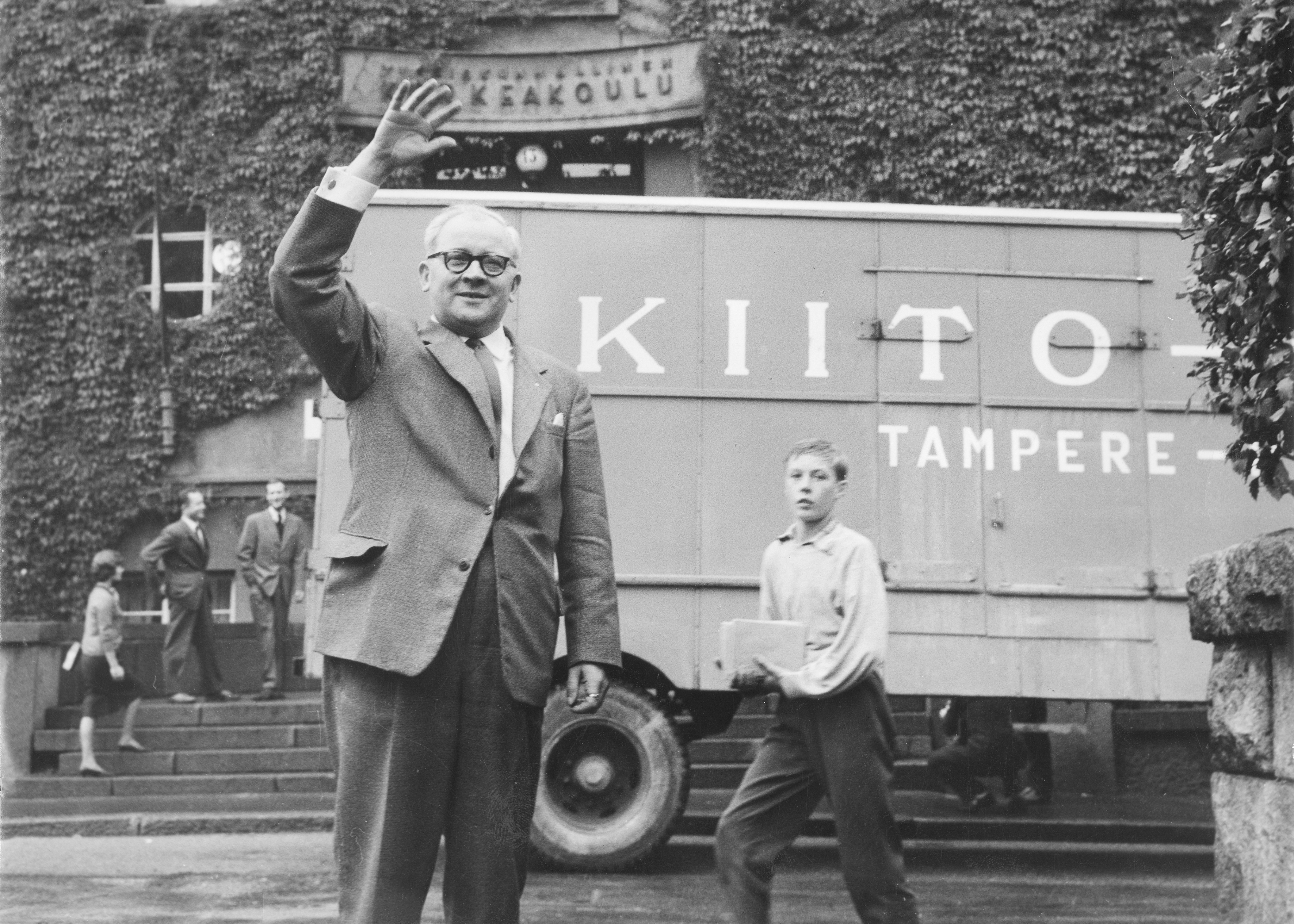 Yhteiskunnallinen korkeakoulu (The socio-political institute of higher education, later University of Tampere) in the process of moving from Helsinki to Tampere. In the foreground, economical director Yrjö Siilo